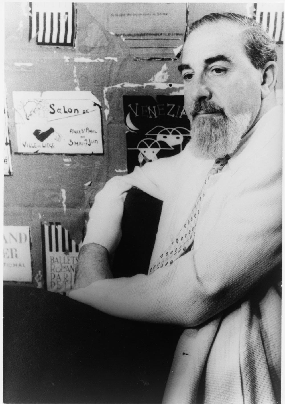 Albert "Al" Hirschfeld photographed by Carl Van Vechten.